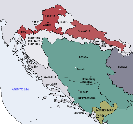 Map of the Kingdom of Croatia in early 1848, at its greatest territorial extent. At the time, the Kingdom of Slavonia was a subordinate autonomous kingdom within the Kingdom of Croatia.